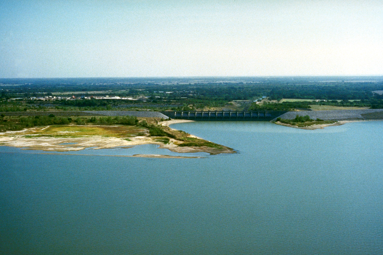 Waco Lake on the Bosque River in McLennan County, Texas, USA. This concrete-and-earthfill dam is nearly three miles (4.8 km) long. This photograph shows only the central portion of the dam including the concrete-and-steel water control structure. The lake is located next to, and is the western border of the City of Waco. View is to the northeast from behind the dam. Coordinates: 31°35′26.95″N 97°12′48.49″W / 31.5908194°N 97.2134694°W